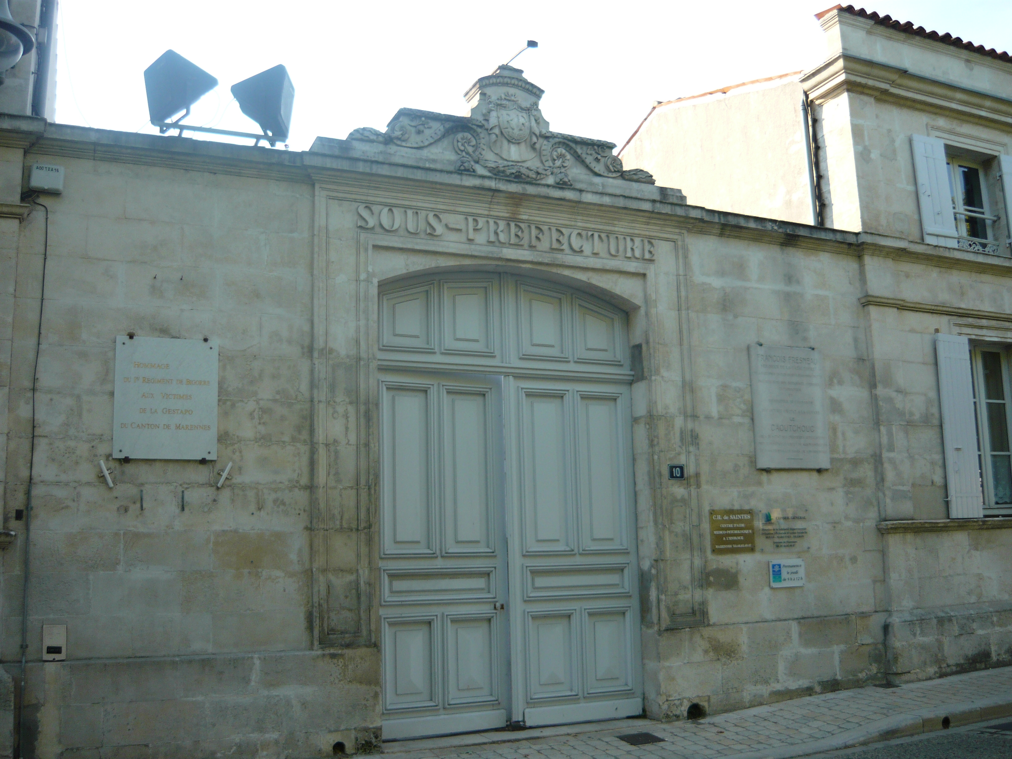 Portail de l'ancienne sous-préfecture de Marennes